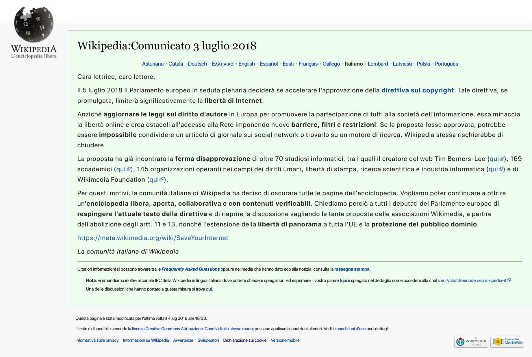 Screenshot of Italian Wikipedia today. It links to European_Parliament_vote_in_2018